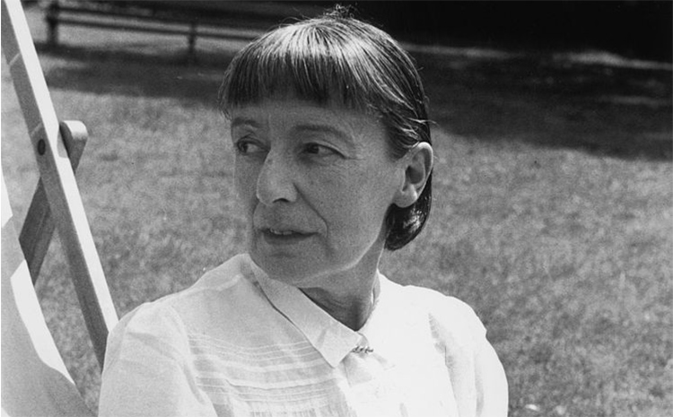 author